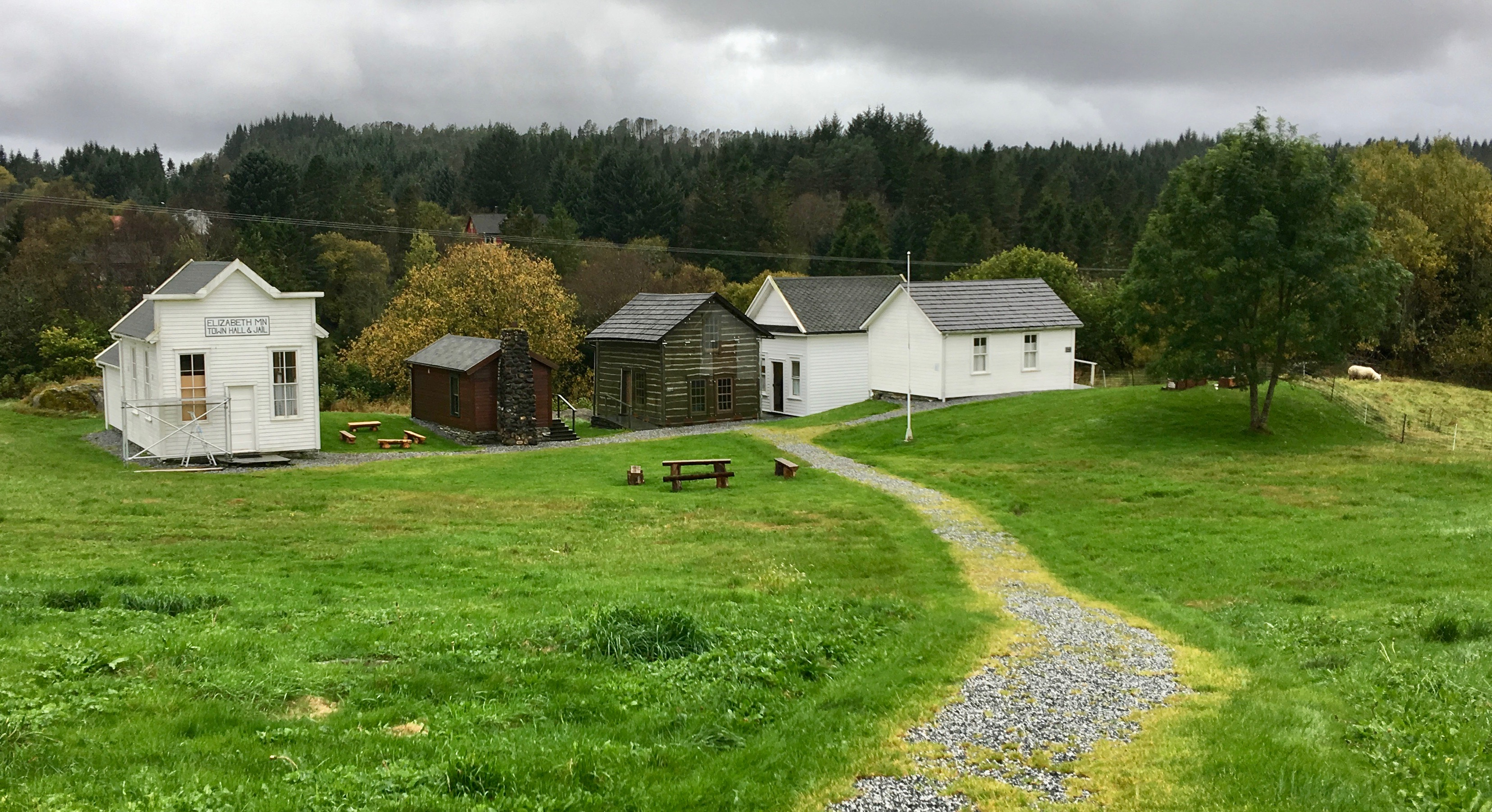 Open-air museum "Western Norway Emigration Center" (Norwegian: "Vestnorsk utvandrarsenter" or "Vestnorsk utvandringssenter") located at the village of Sletta on the island of Radøy in Hordaland, Norway. The museum consists of six historical buildings, reassembled in a rural environment. The building were re-located from Minnesota and North Dakota from locations characterized by Norwegian American immigration during the end of the 19th and the beginning of the 20th century. Cropped distorted panorama photo 2017-10-03